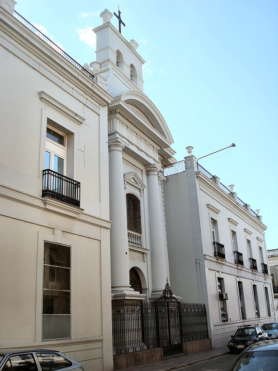 Hospital Maciel, Calle Francisco Maciel, Ciudad Vieja, Montevideo, Uruguay.